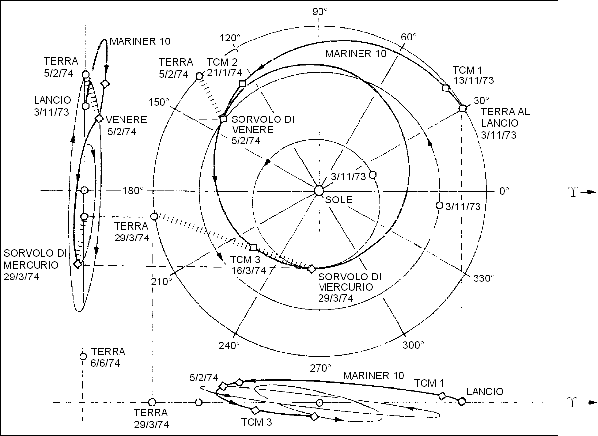 First half of the trajectory of Mariner 10 spacecraft: since launch on November 3rd, 1973 to first fly-by of Mercury on March 29th, 1974.